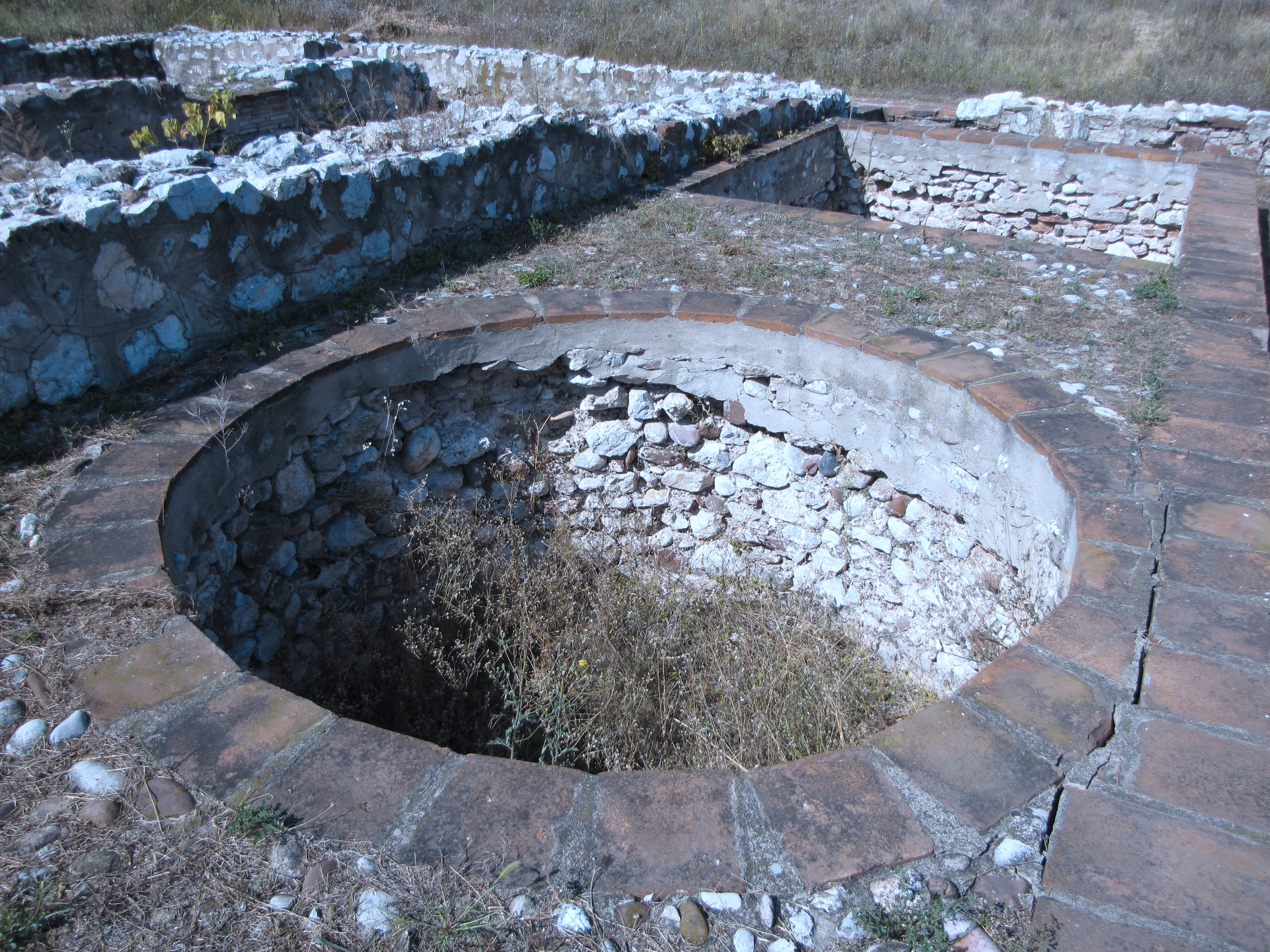 AWIB-ISAW: The Villa at Mediana (XXI) A storage basin within the large granary at Mediana. by Anne Chen (2009) copyright: 2009 Anne Chen (used with permission) photographed place: Naissus (Nis) Published by the Institute for the Study of the Ancient World as part of the Ancient World Image Bank (AWIB). Further information